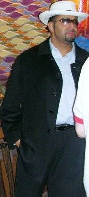 Armando Estrada picture I took at a meet and greet in Cleveland Ohio.